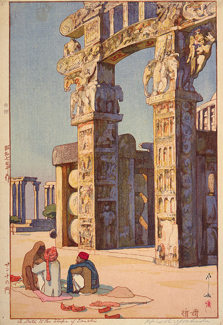 From Bombay, Yoshida traveled by automobile to Sanchi. The Buddhist monuments at Sanchi, including the Great Stupa and the gate shown in Yoshida's print, reached their present form with stone additions in the first century B.C.E. Although not directly connected with the life of the historical Buddha, the monuments of Sanchi constitute important evidence of early Buddhist architecture in India. In addition to the Great Stupa—a dome-shaped structure containing a relic chamber—there were additional smaller stupas, pillars, shrines, and monastic buildings. The site was excavated and restored under British direction during the late nineteenth century, after its rediscovery by a British military officer in 1818. In this print, Yoshida chose to depict one of the four carved stone gates located at the cardinal points of the wall surrounding the Great Stupa. A group of Indian visitors is seated on a mat in the foreground.